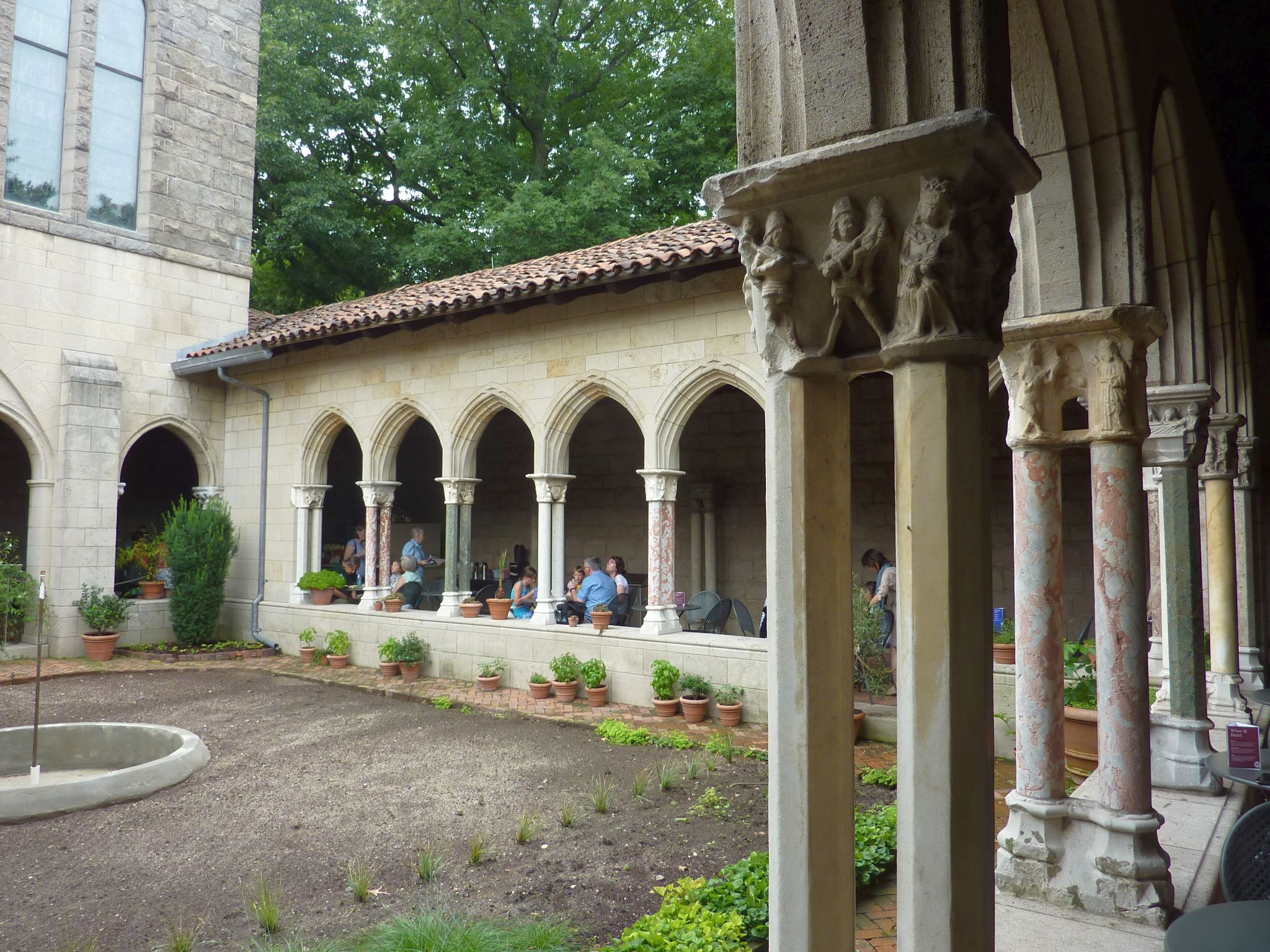 Trie Cloister, The Cloisters Museum, New York City